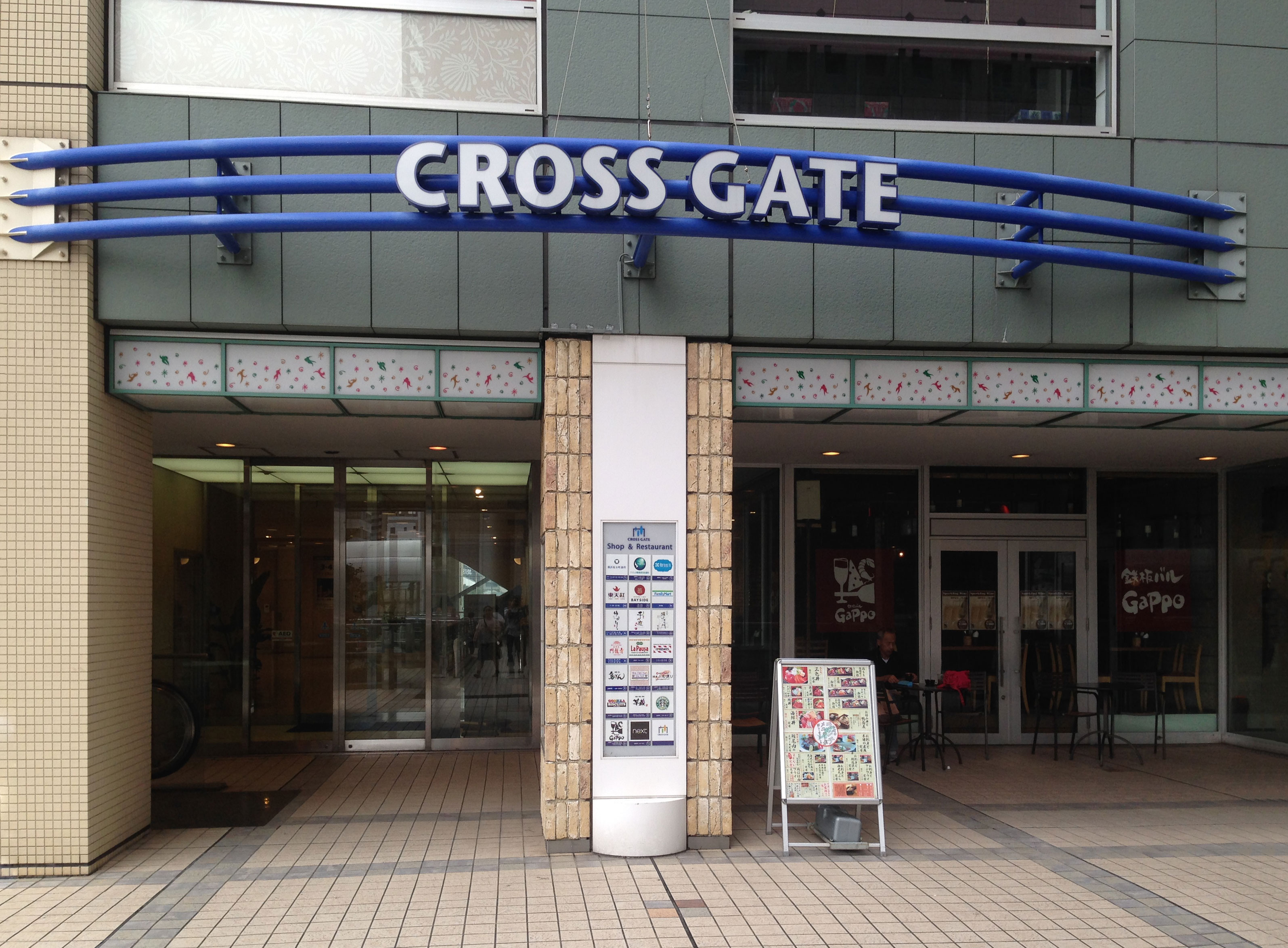 The second-floor entrance to the Cross Gate building in front of Sakuragicho Station in Yokohama, Japan